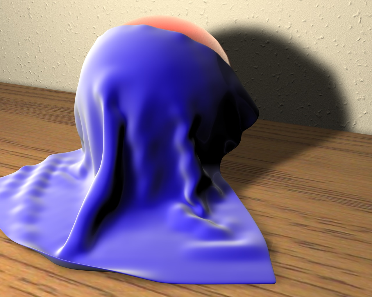 Cinema 4d with Cloth module